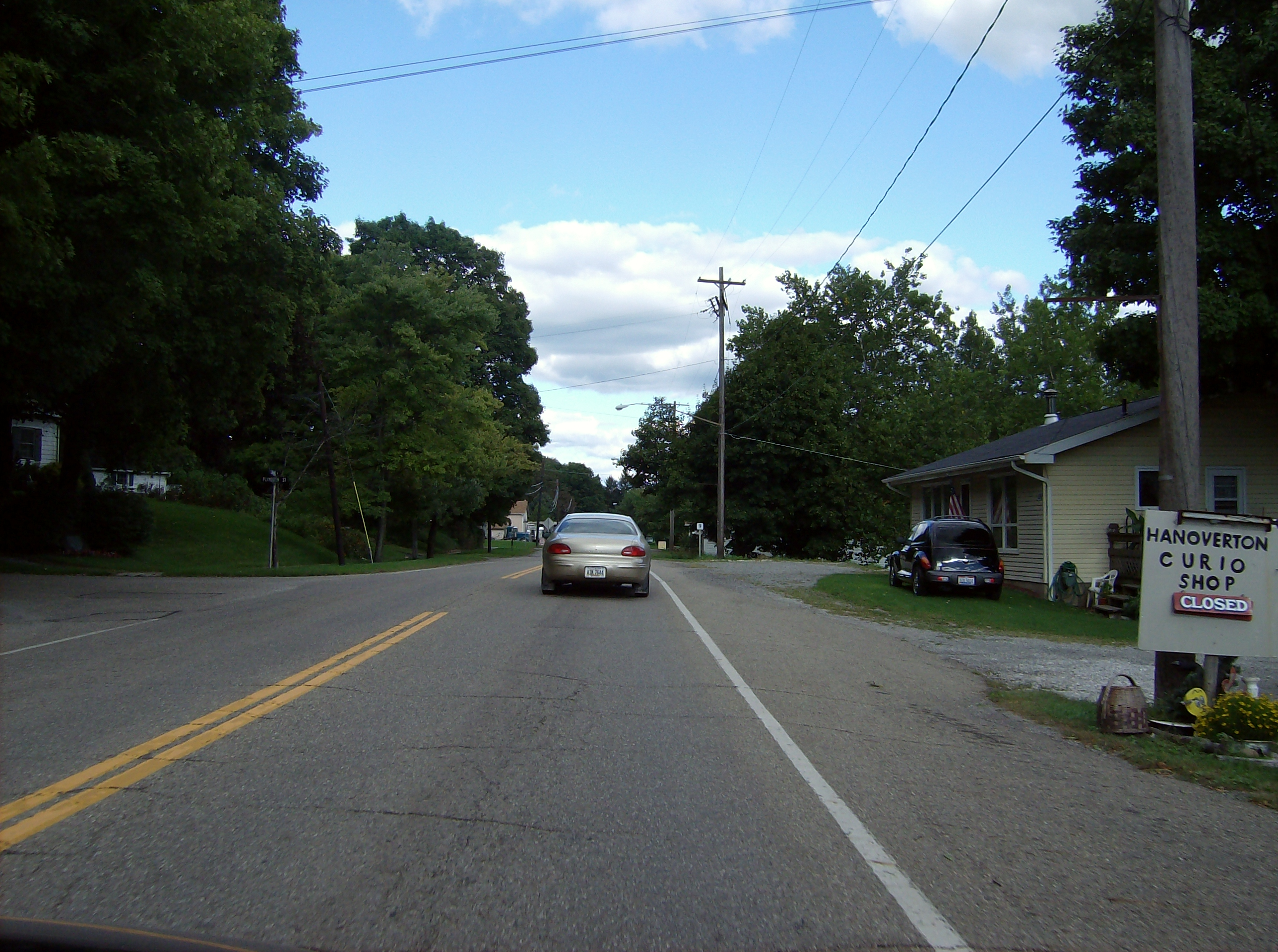 Along eastbound U.S. Route 30 in Hanoverton, Ohio, United States. Picture taken at the intersection of Canal and Plymouth Streets.